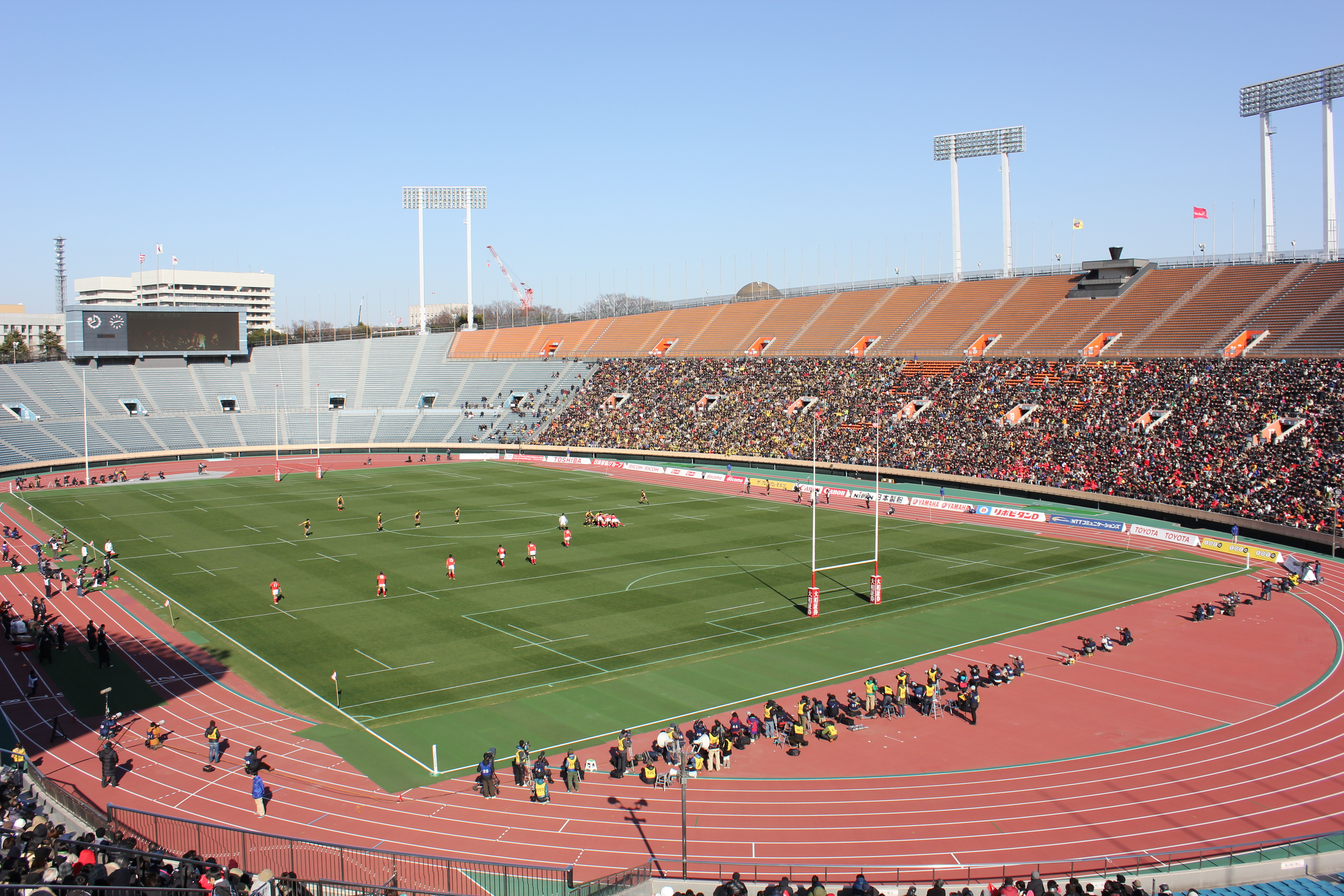 Kokuritsu Kasumigaoka stadium